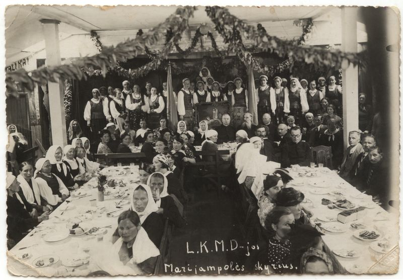 Lunch after a meeting of the Lithuanian Catholic Women's Organization (Lietuvių katalikių moterų draugija) in Marijampolė.